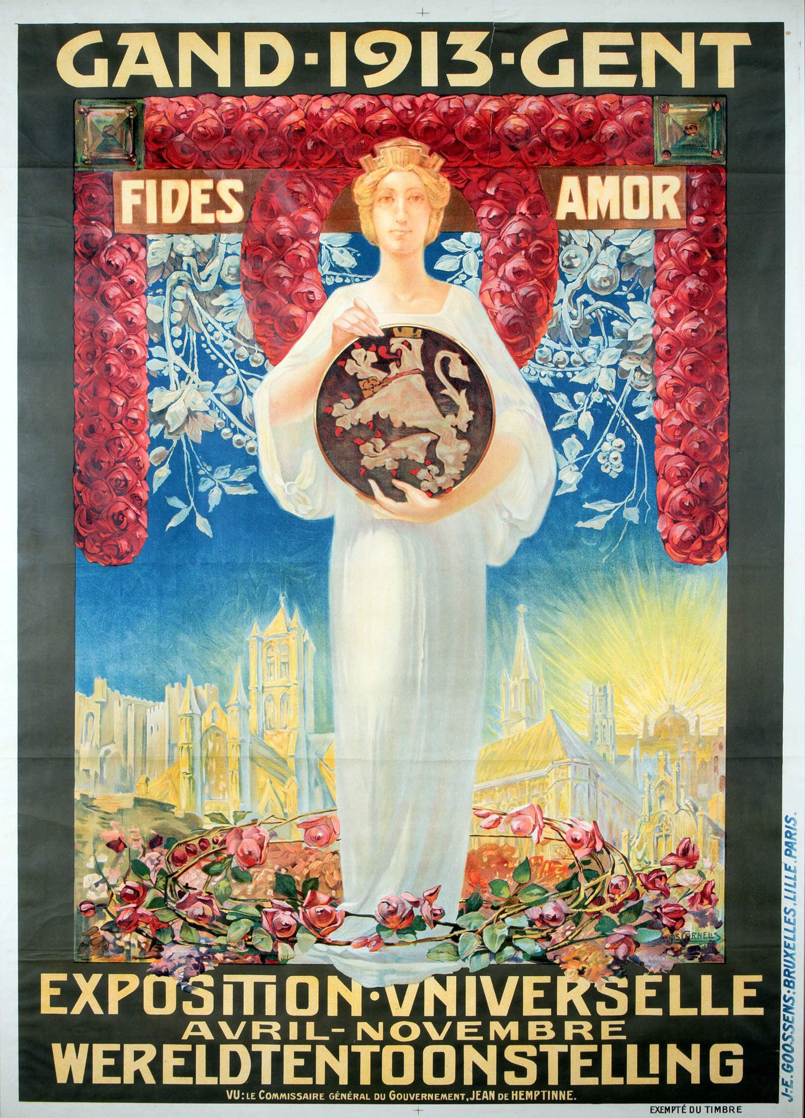 Poster for the 1913 International Exhibition held in Gent, Belgium. Printed by J. E. Goossens, Bruxelles.